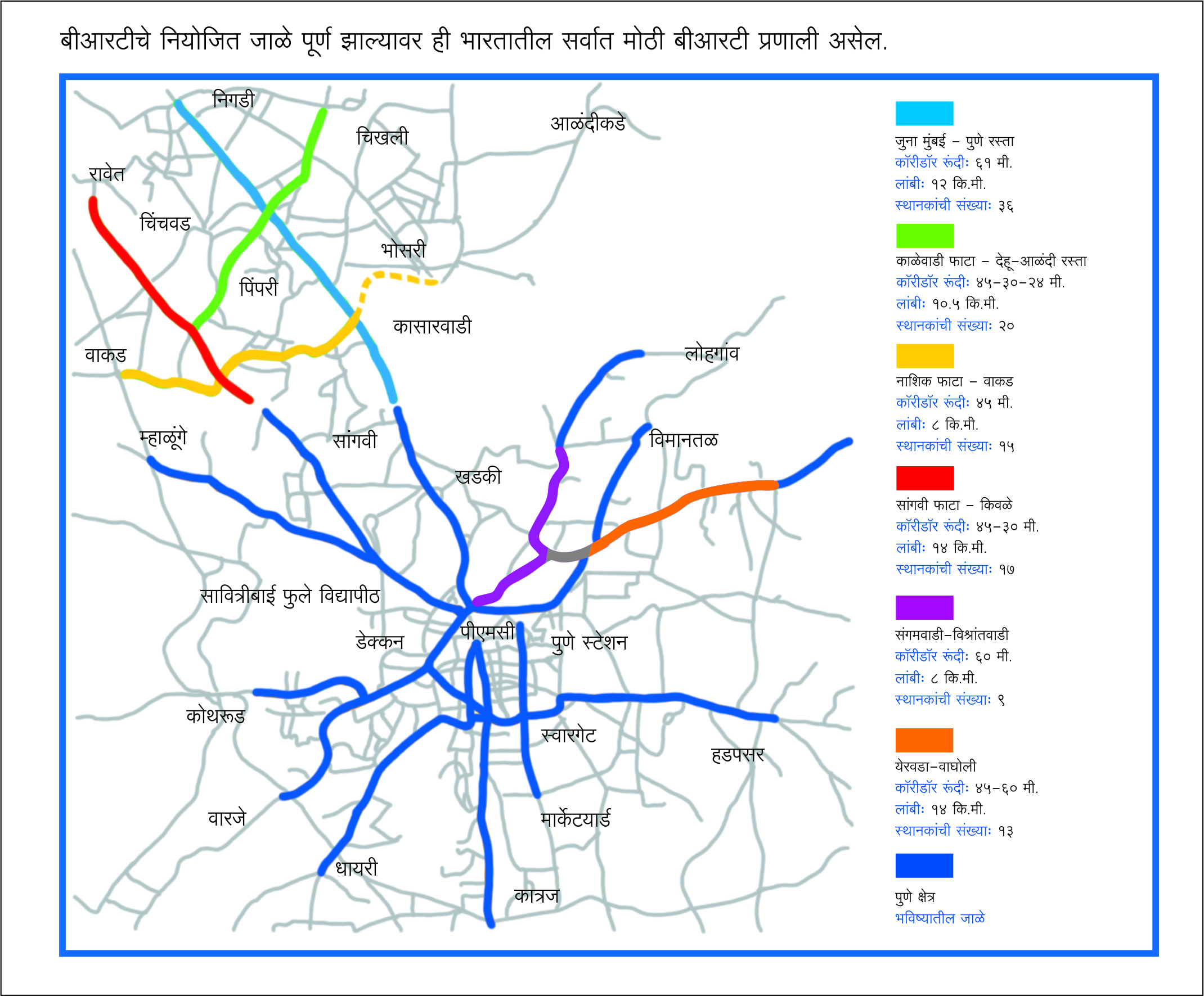 Brt corridor map marathi